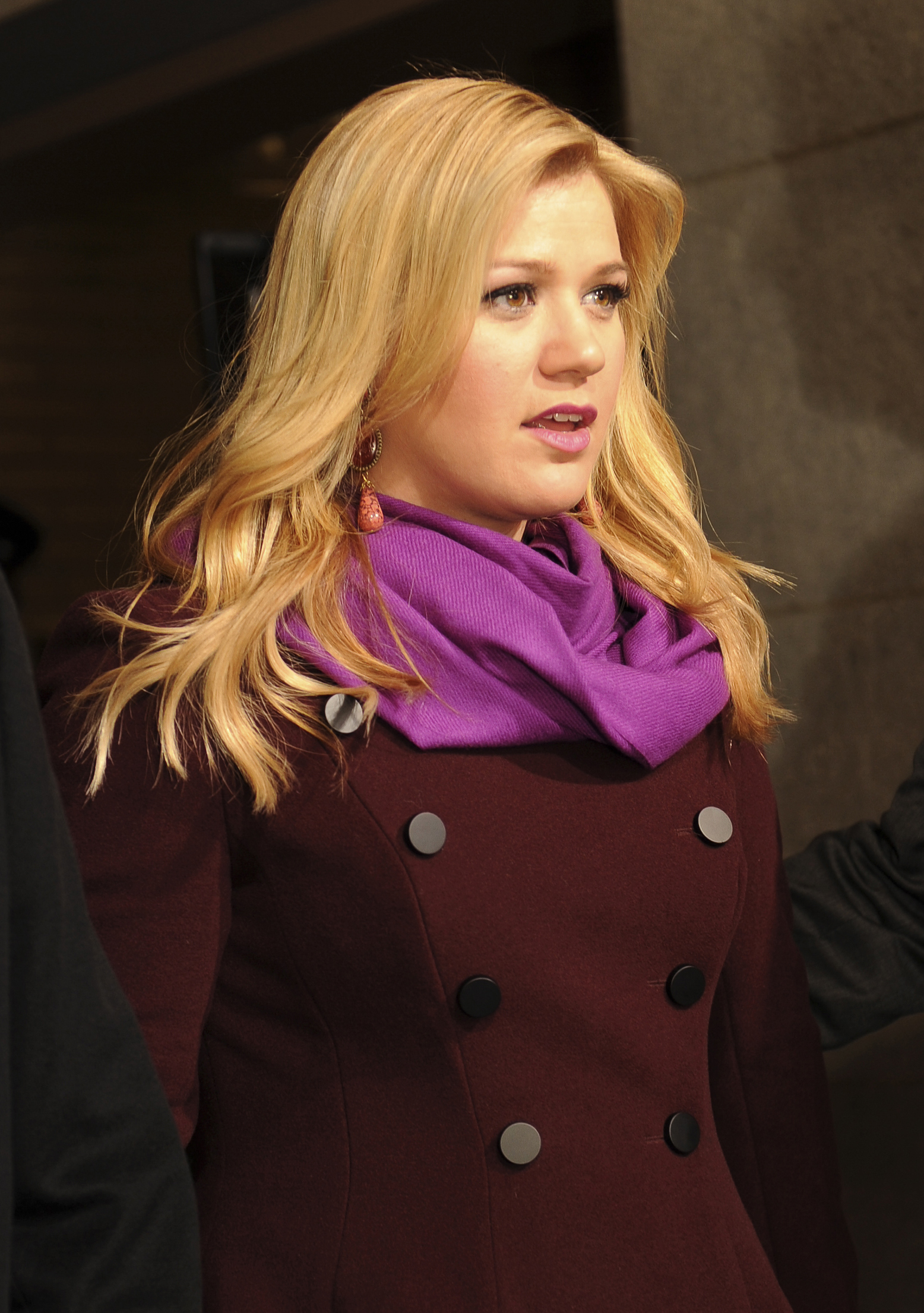 Singer Kelly Clarkson heads to the viewing platform where she will perform My Country, 'Tis of Thee during the 57th Presidential Inauguration held at the U.S. Capitol in Washington, DC, on January 21, 2013. Barack H. Obama was elected to a second term as President of the United States on November 6, 2012. (Official U.S. Marine Corps photograph by Kathy Reesey/Released)